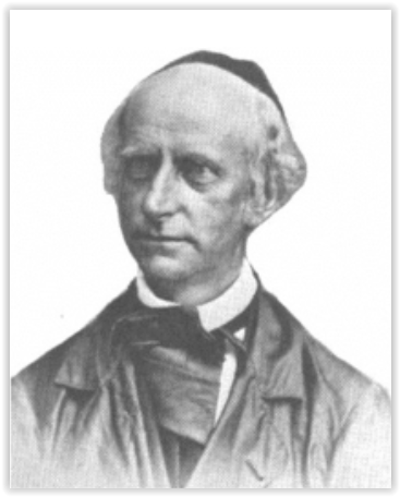 Father Adrianus Hoecken (1815-1897)